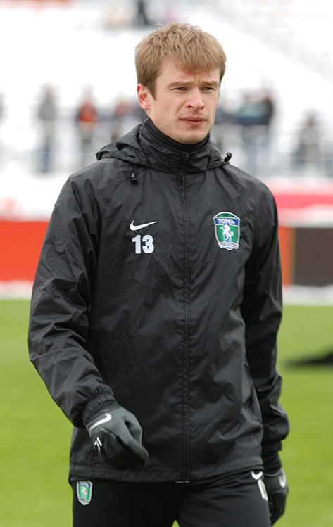 Pavel Nyakhaychyk with FC Tom Tomsk